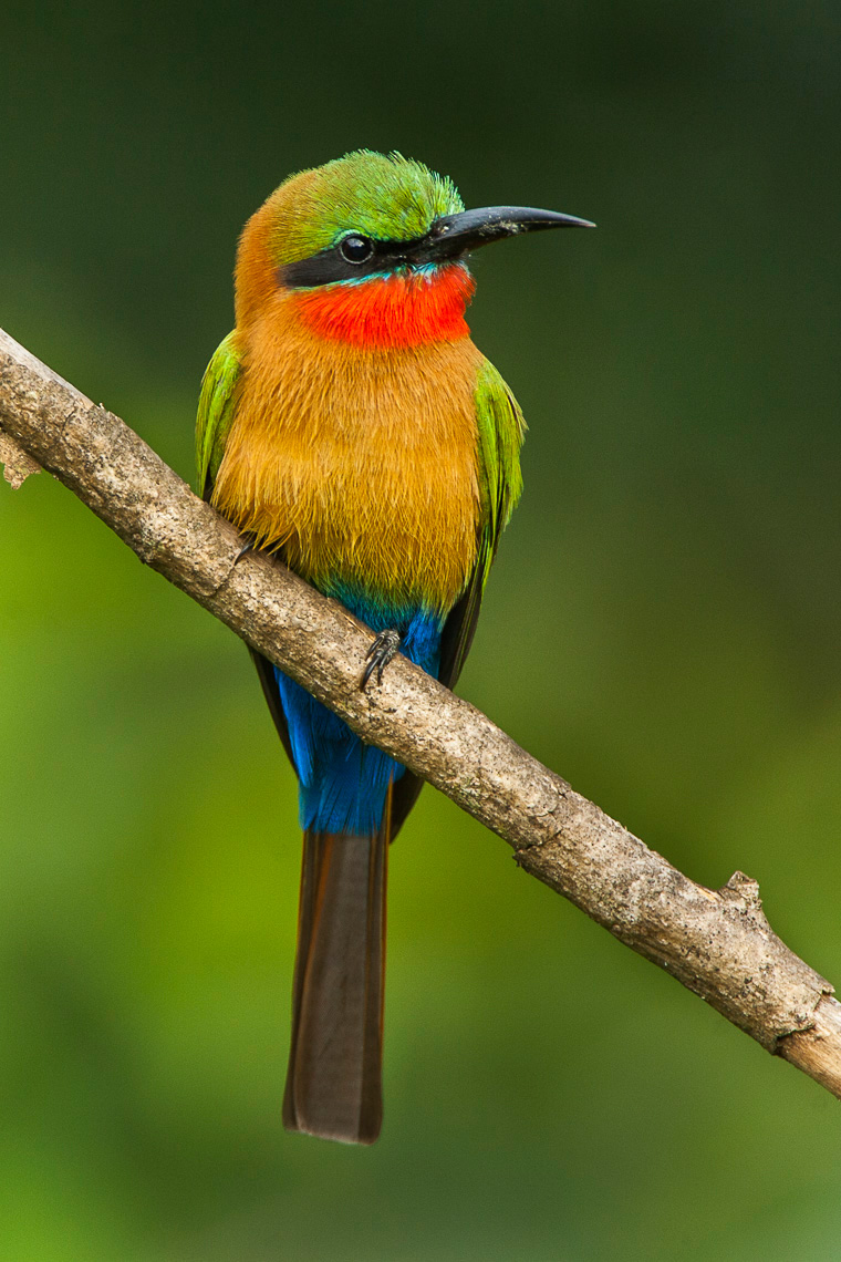 Merops bulocki frenatus, Murchison Falls NP, Gulu, Uganda